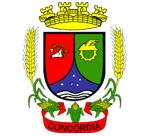 Coat of arms of the municipality of Concórdia - SC - Brazil